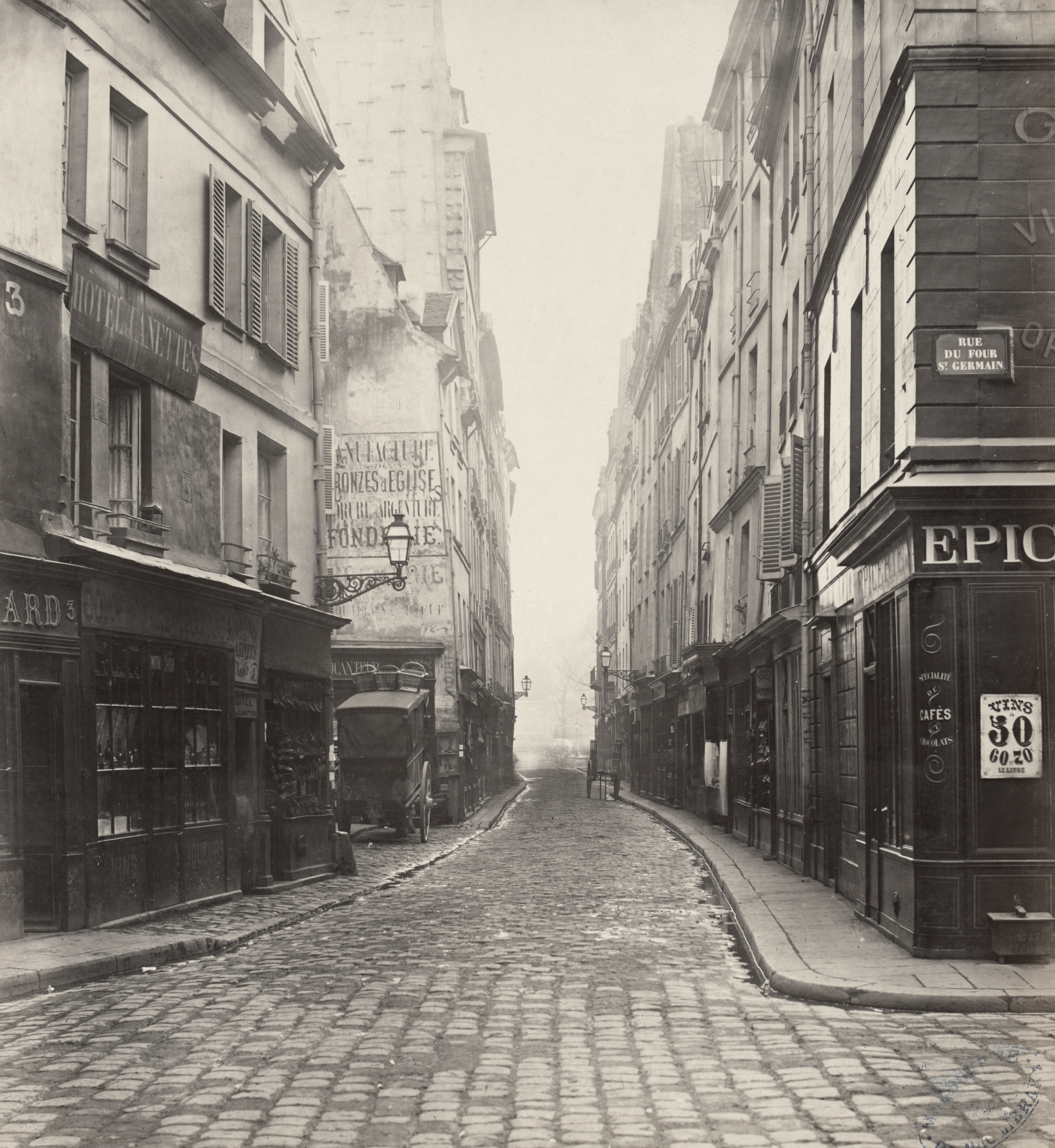 Looking along cobbled narrow street from intersection, cafe on corner on right with plaque on wall reading: Rue du Four St. Germain; building on left with sign Hotel Canettes, carriage without horse in lane.